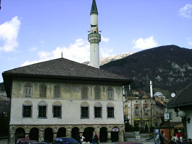 Town of Travnik in the central part of Bosnia-Herzegovina